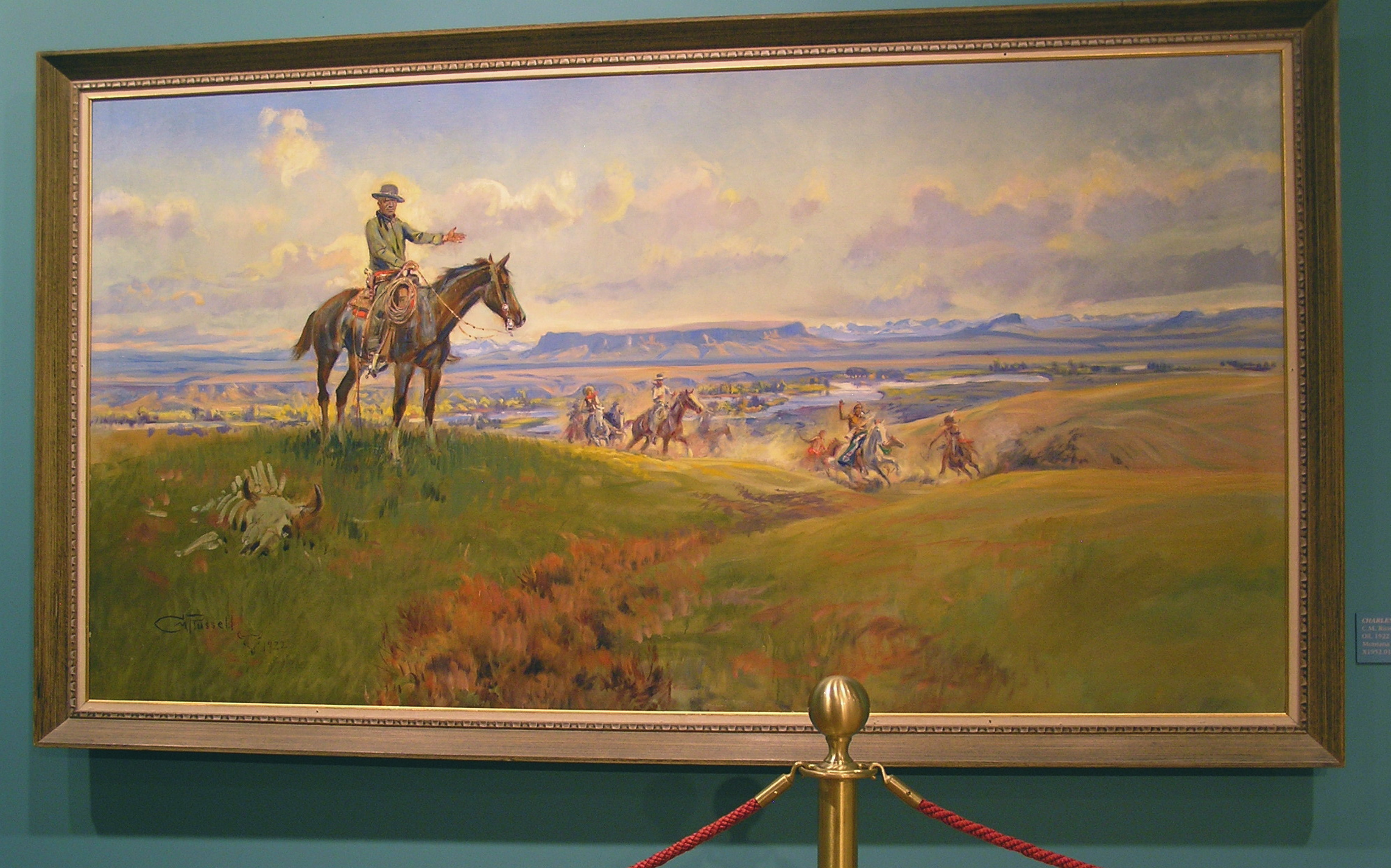 "Charles M. Russell and His Friends" Oil, 1922 C.M. Russell, Montana Historical Society MacKay Collection, Helena, MT